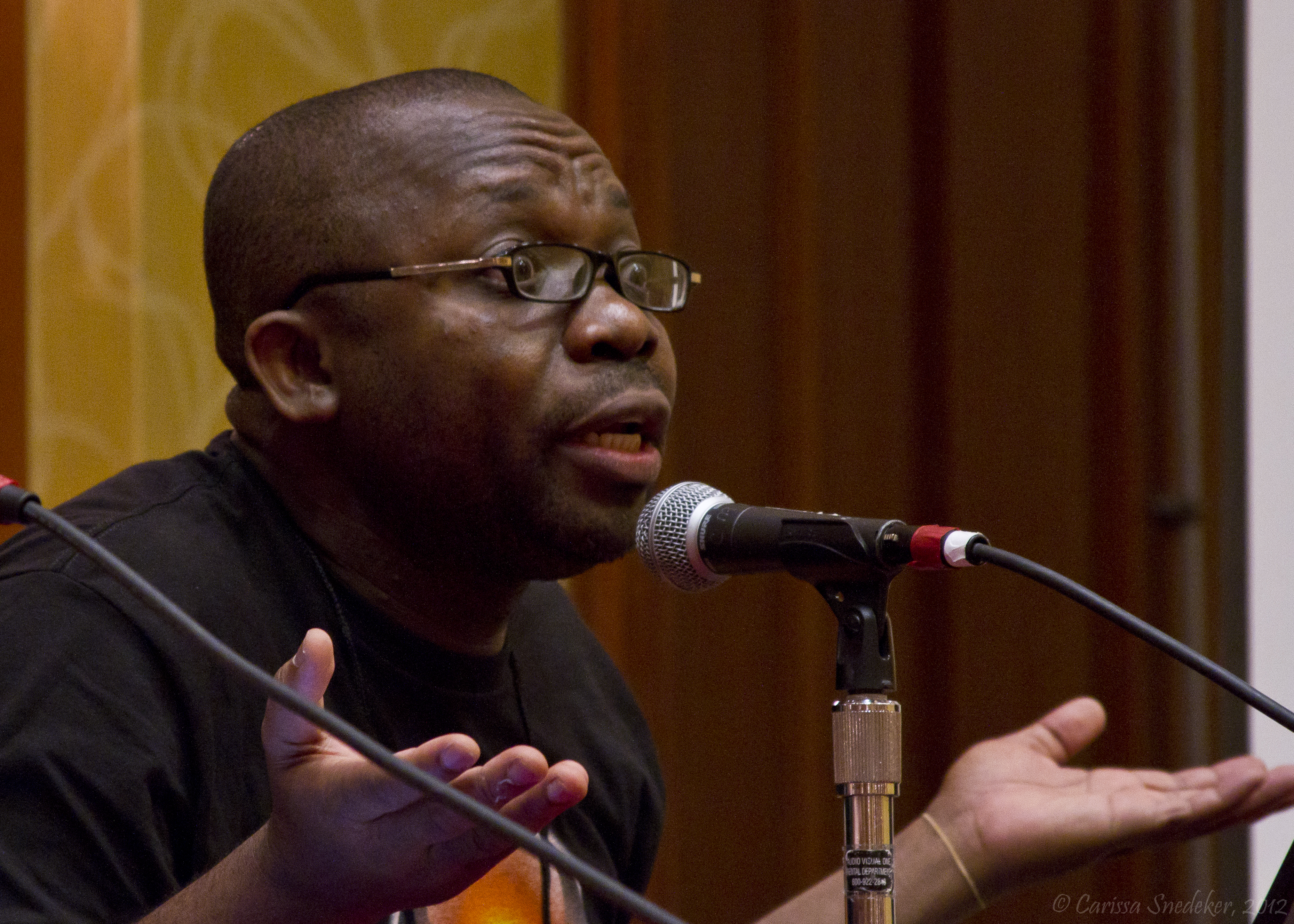 Leo Igwe at The Amaz!ng Meeting 2012 - July 12, 2012